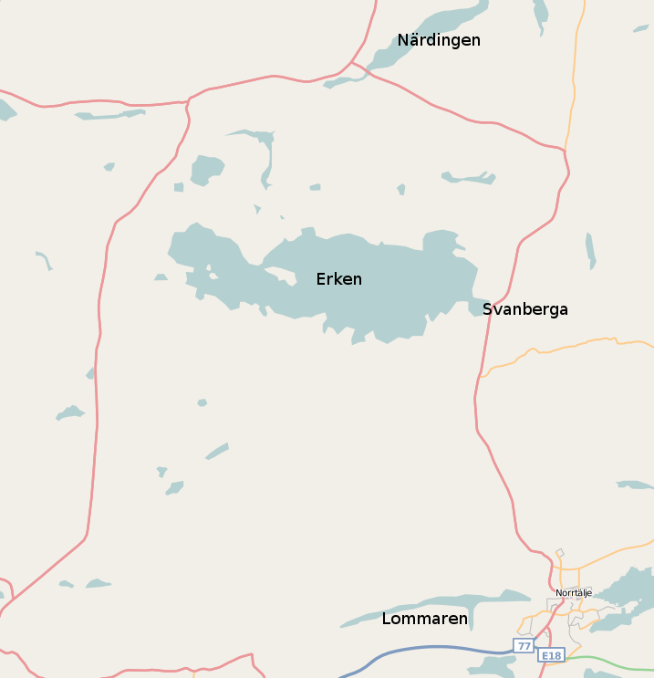 Map of Lake Erken in Norrtälje kommun.